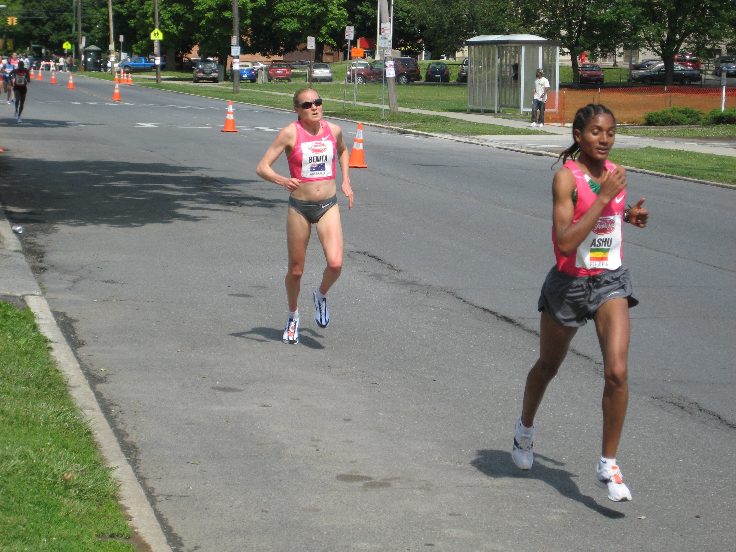 Benita Johnson and Ashu Kasim at the 2009 Freihofer's Run for Women